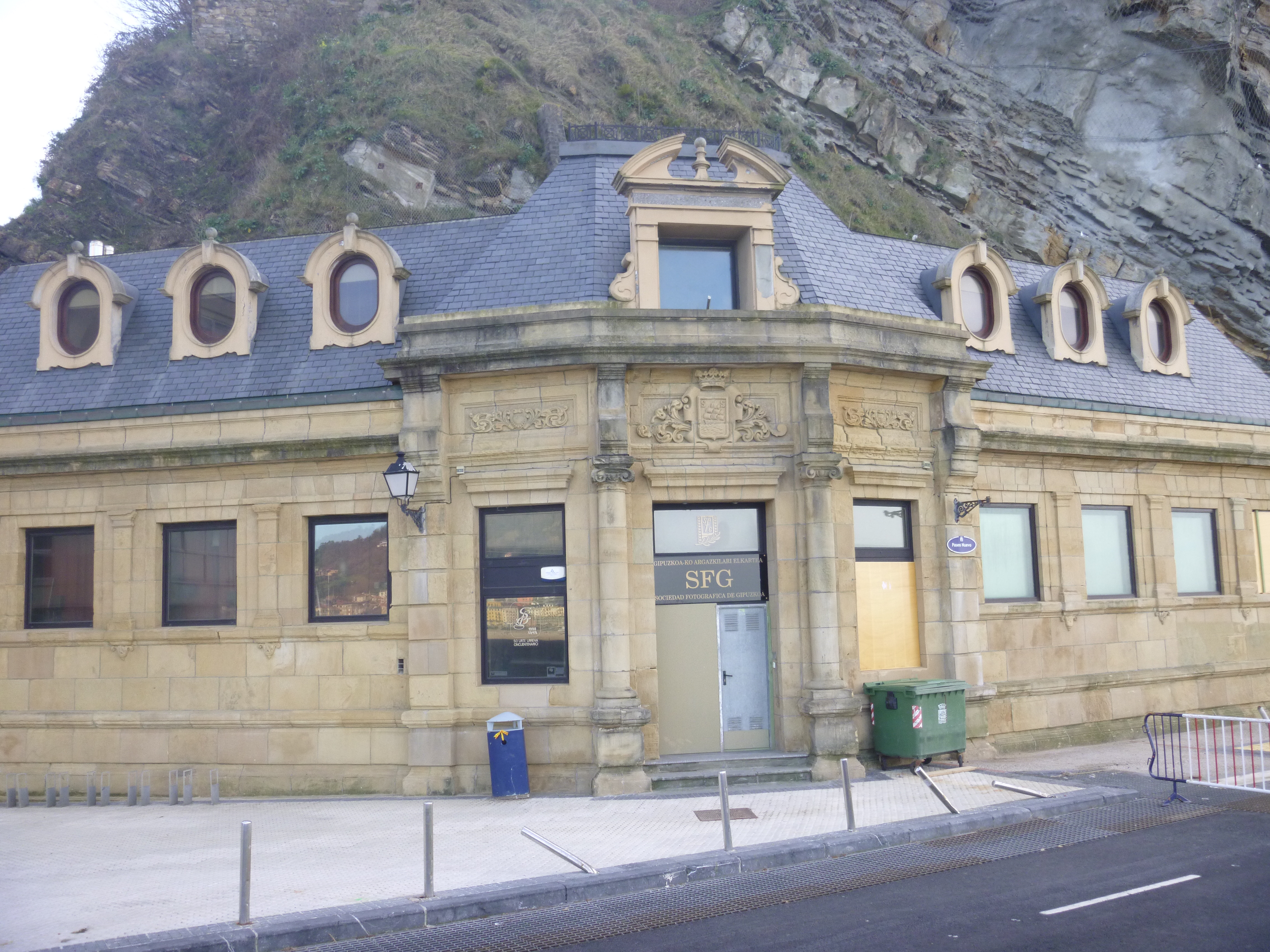 Photography Association in Donostia.